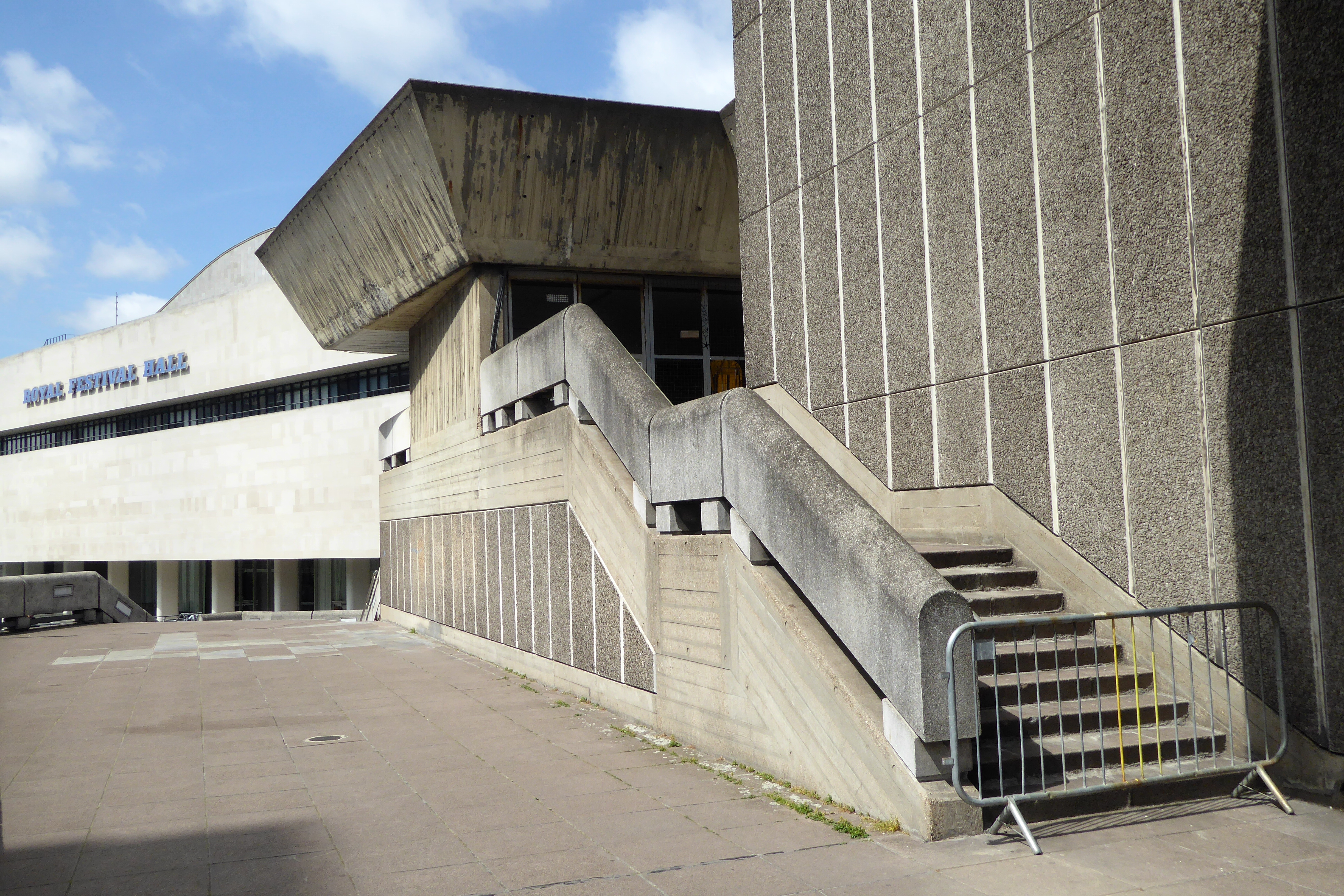 A staircase on the southern side of the Hayward Gallery, London Borough of Lambeth.